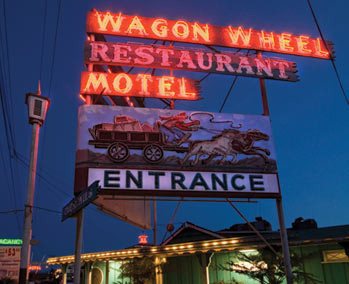 Mid-century neon sign at Wagon Wheel Motel, Oxnard, California